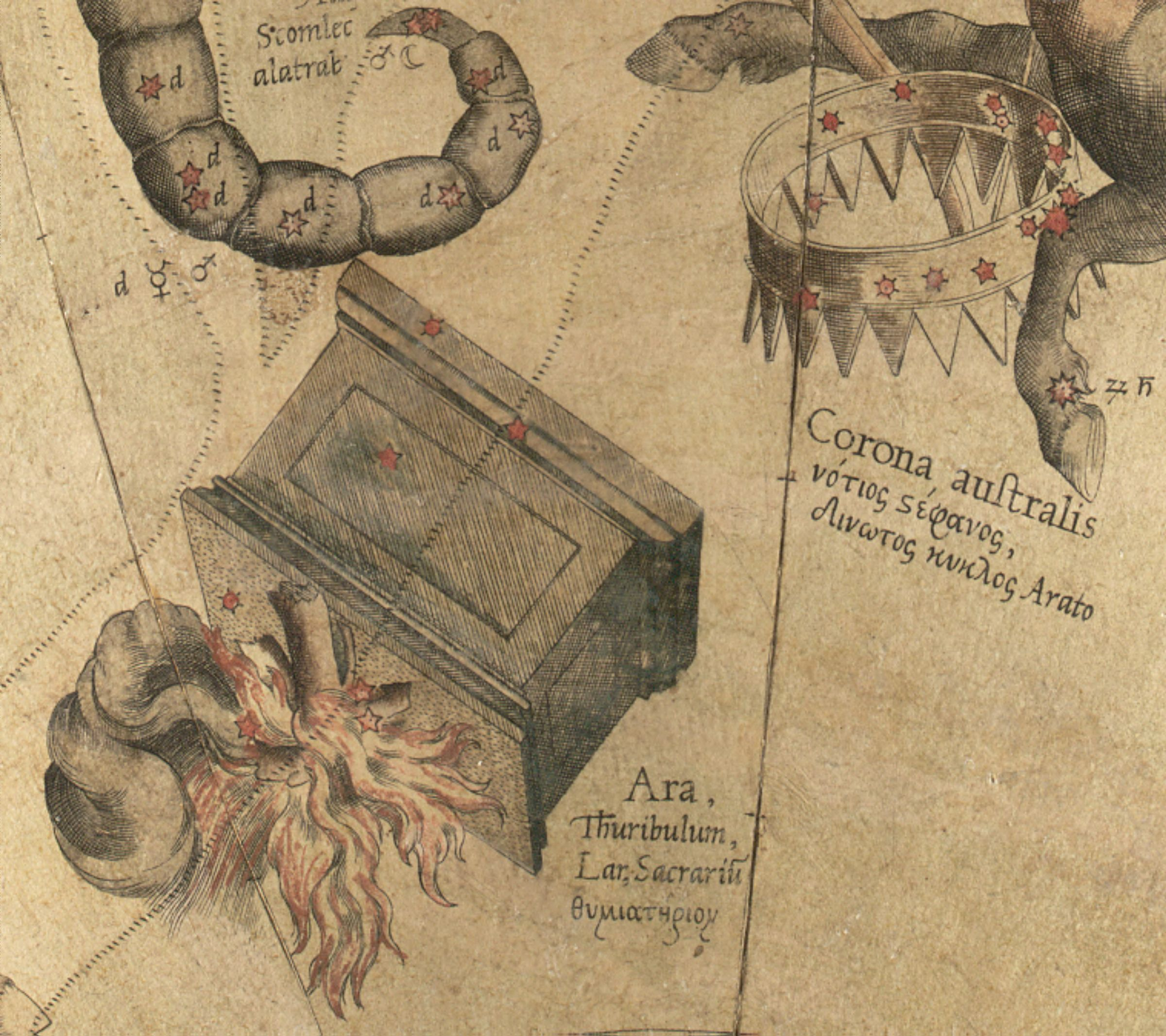 Ara and Corona australis constellations from the Mercator celestial globe.